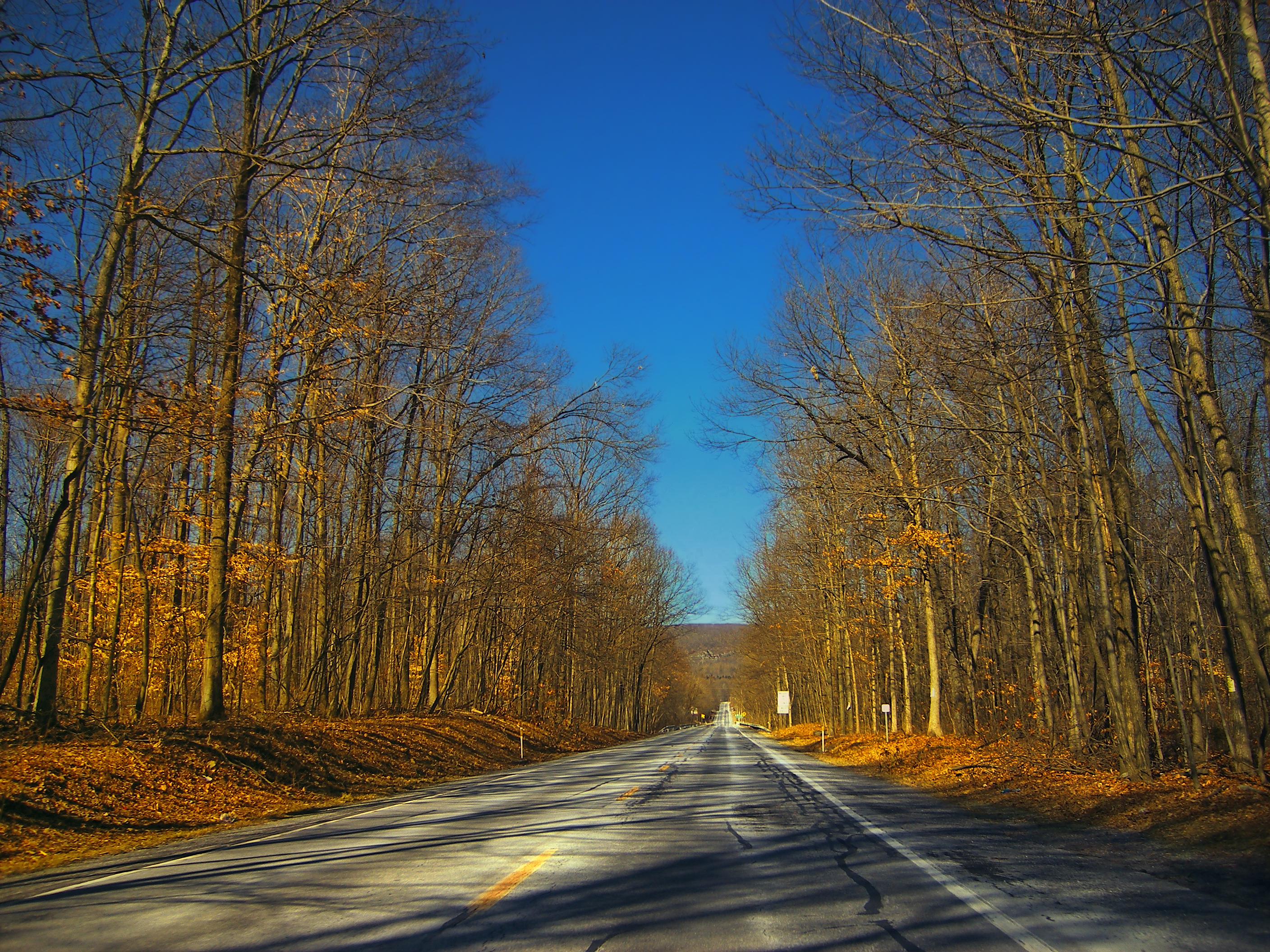 Late-day light, Route 191 North, Northampton County.